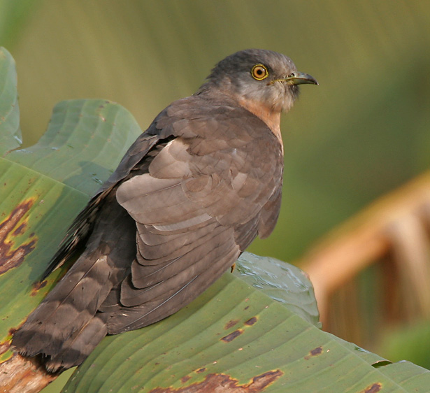 Common Hawk Cuckoo Cuculus varius (syn. Hierococcyx varius) at Narendrapur near Kolkata, West Bengal, India.